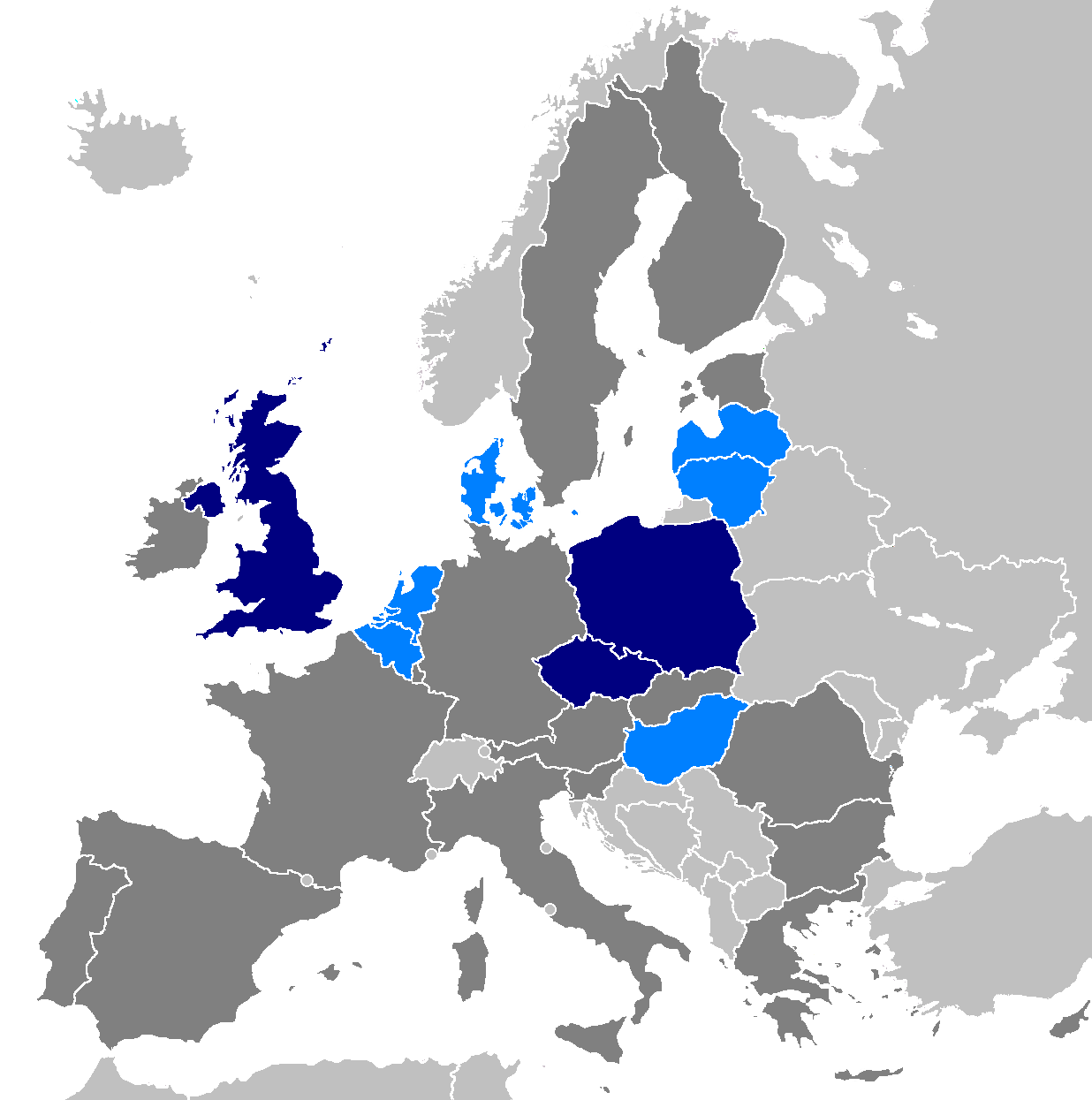 European Conservatives and Reformists (ECR) Group in the European Parliament, as of 01 Januari 2010. Dark Blue: EU countries with more than one ECR MEP. Light blue: EU countries with one ECR MEP. Dark grey: EU countries without ECR MEPs. Light grey: Non-EU countries.